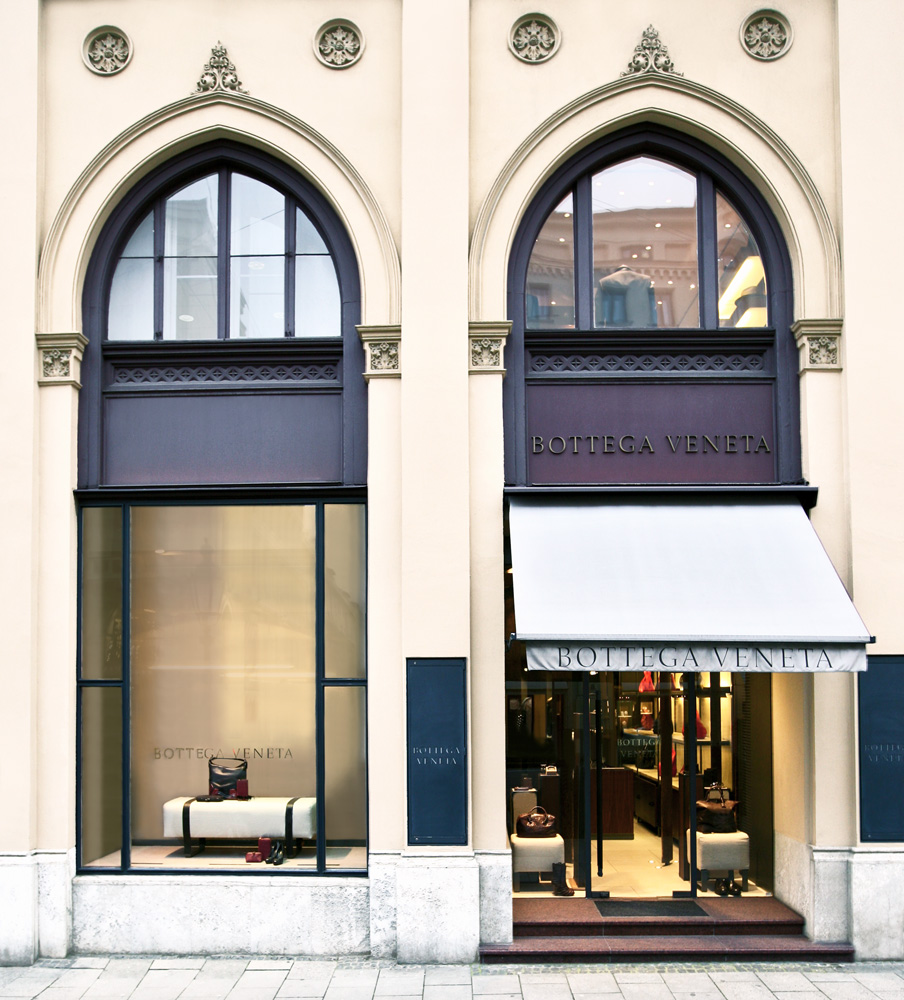 Bottega Veneta store in Munich